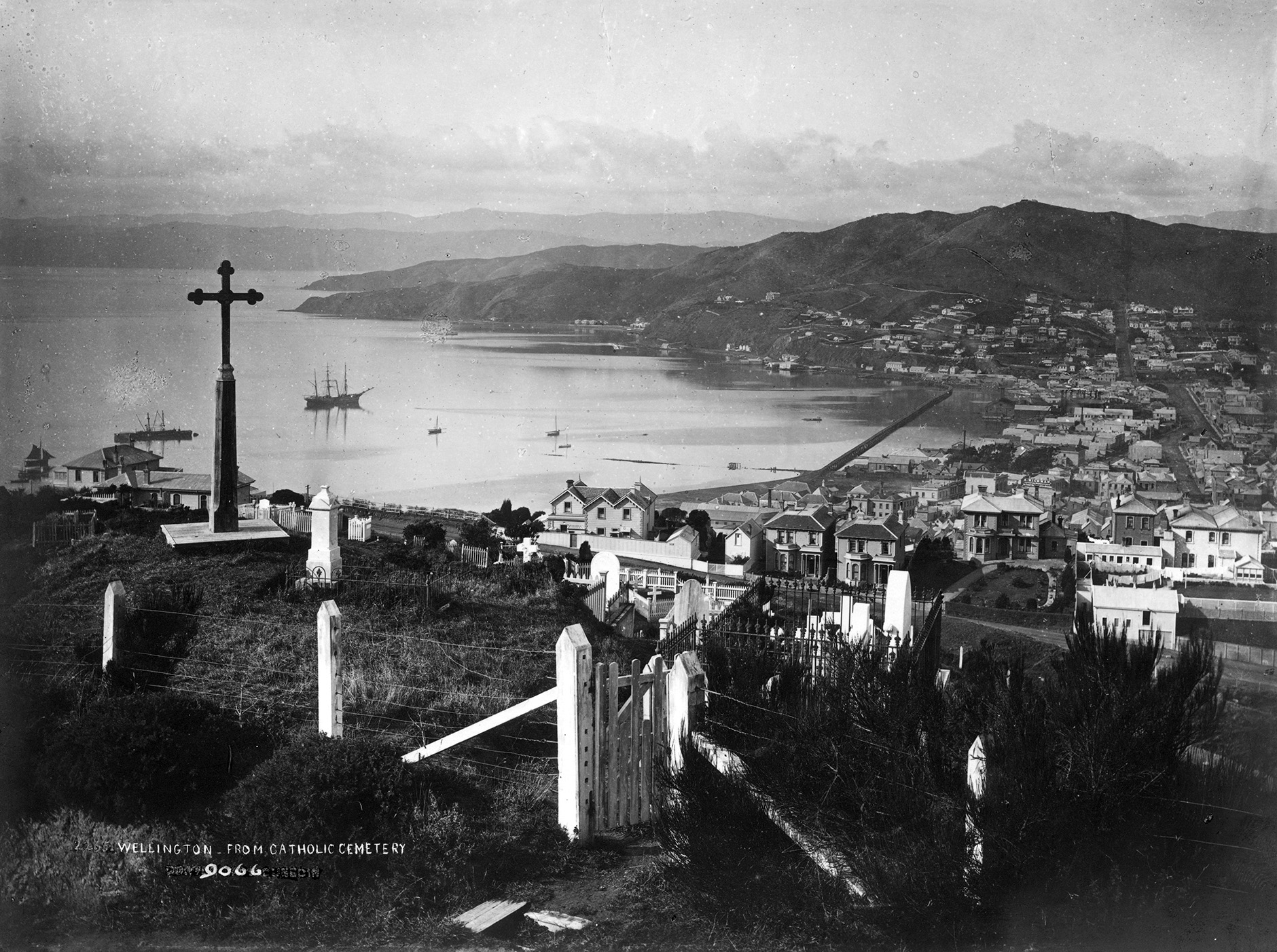 Elevated view of central Wellington and Harbour, looking from Mount Street towards Mount Victoria. Courtenay Place, Elizabeth Street on right of image runs up into Mount Victoria. Photographer: Burton Brothers (Wellington City Council archive reference: 00120:0:33)